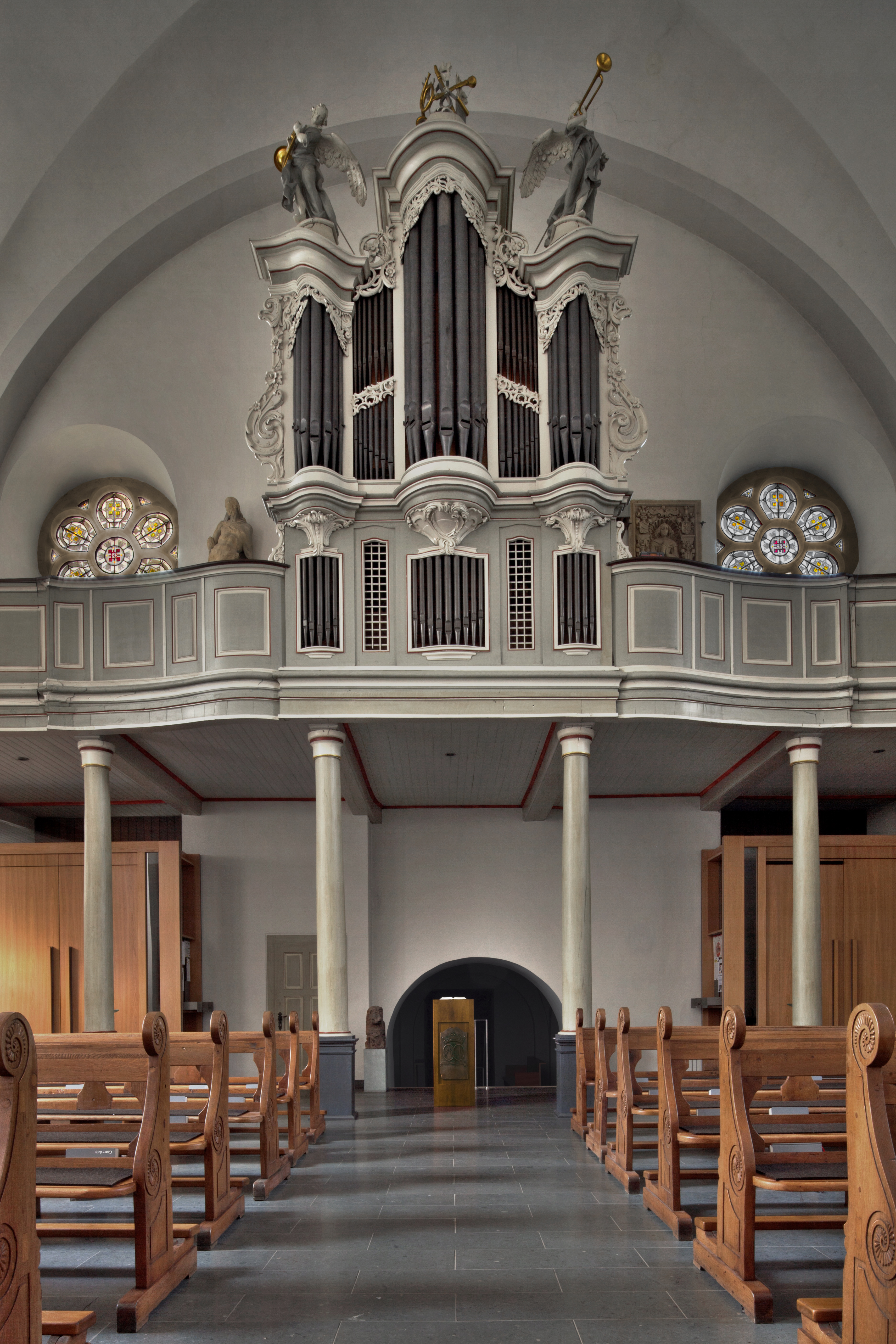 Riesenbeck (Germany), Organ St. Kalixtus This is a photograph of an architectural monument.